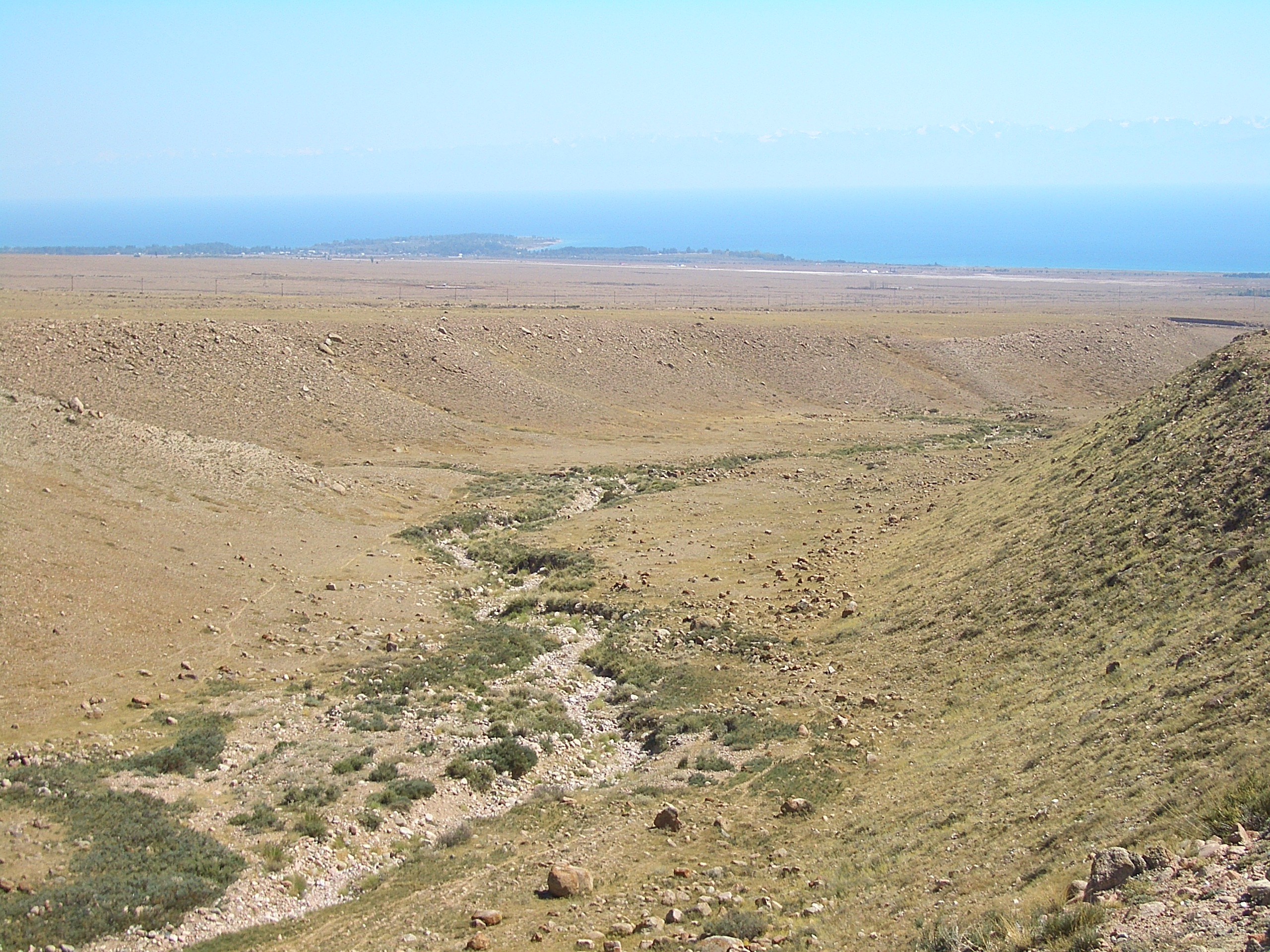 A dry gulch in the desert above Tamchy that, quite likely, formerly had a creek running at its bottom. It has been diverted to run on high ground parallel to the gulch (as seen e.g. in Image:E8218-Tamchy-green-strip.jpg), so that it is easier to get water from it for irrigating fields etc.